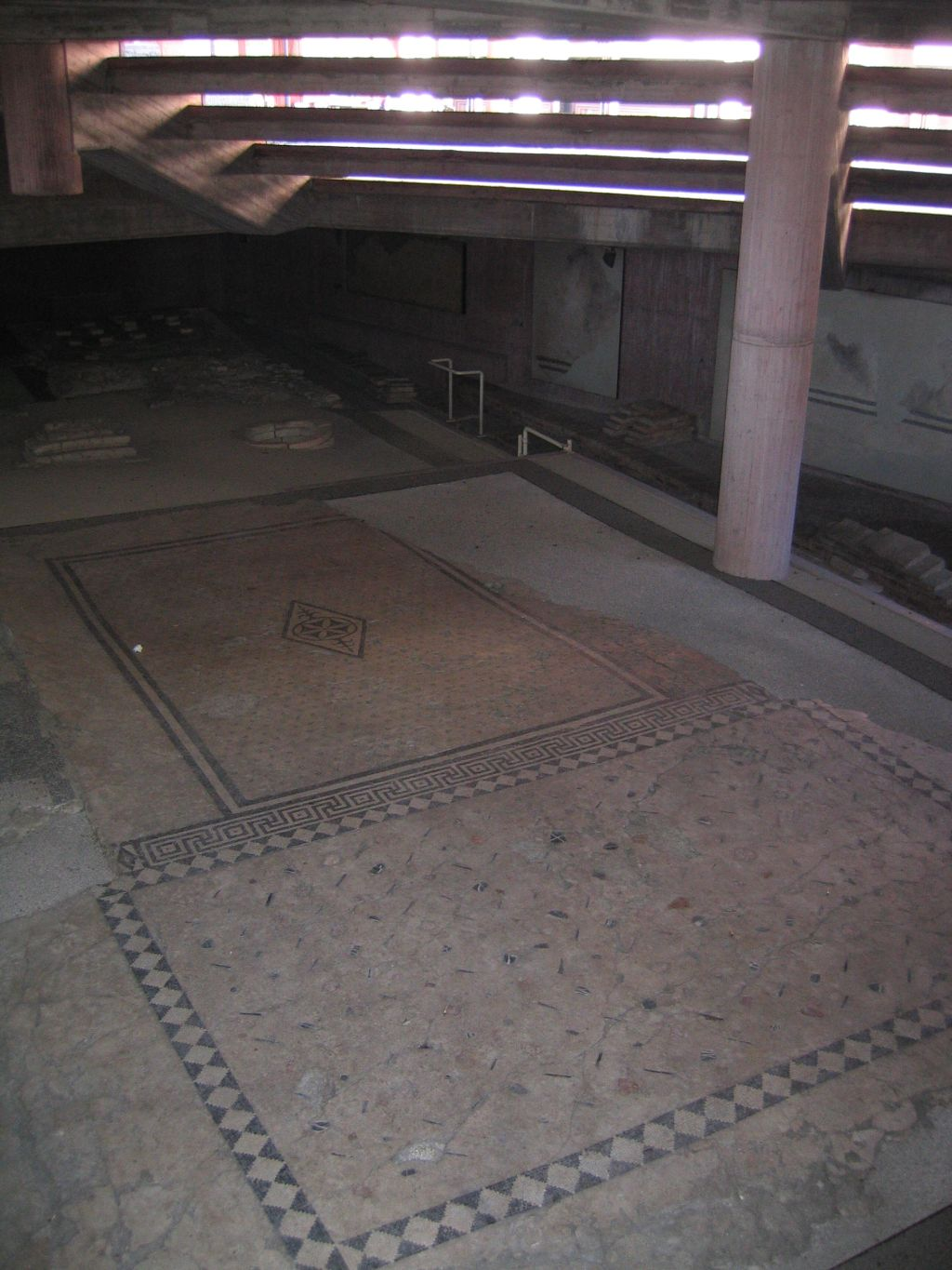 Oderzo (Treviso, Veneto, Italy). Foro Romano. Rests of an ancient villa.